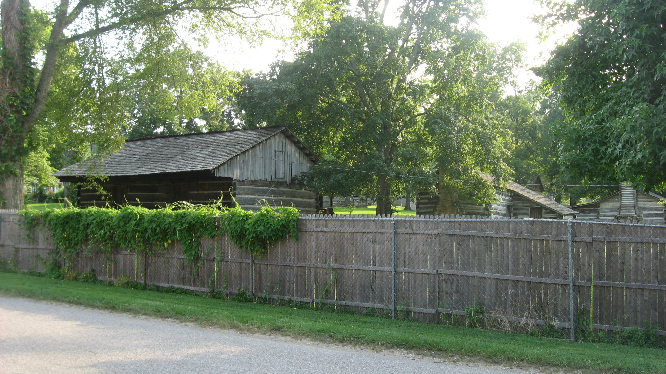 Log cabins at the Lincoln Pioneer Village, located off Ninth Street in Rockport, Indiana, United States. Built in 1935 by the Works Progress Administration, the complex is listed as a historic district on the National Register of Historic Places.